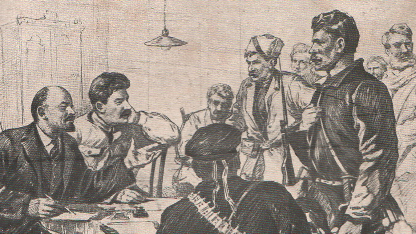 Sketch of Leon Trotsky and Joseph Stalin by Vasiliev